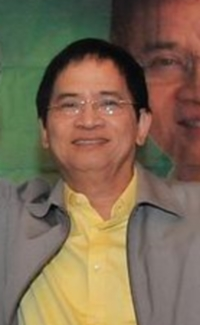 Eddie Villanueva